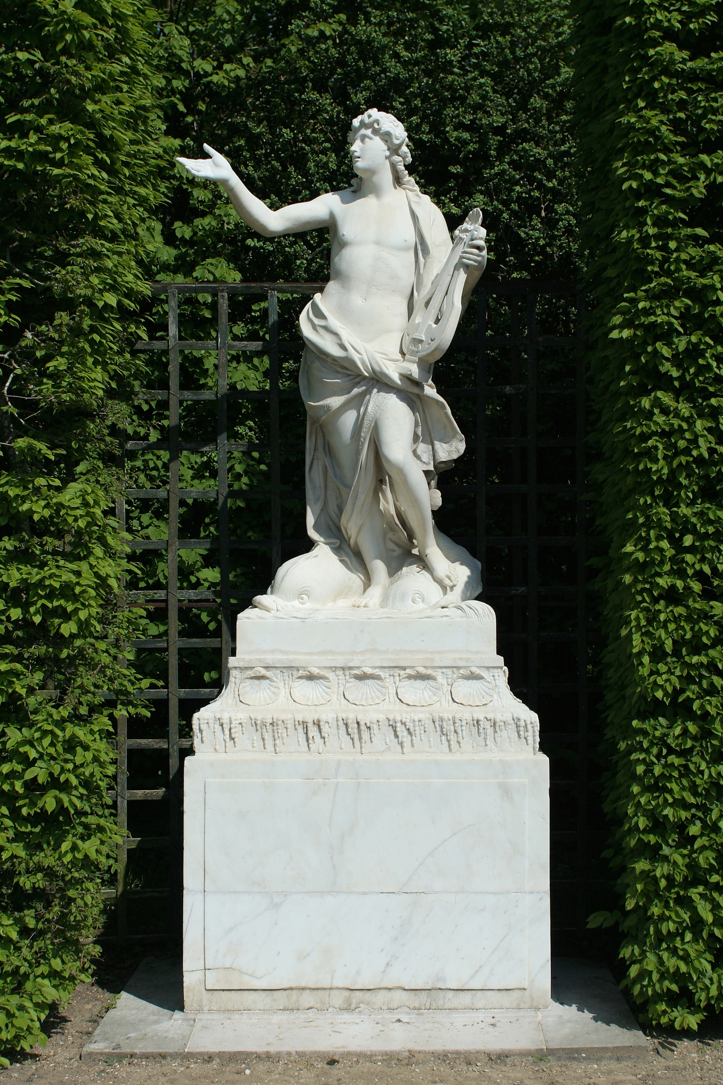 The musician Arion attacked on a ship, invoking Apollo with his kithara to send him a dolphin to carry on the waves.